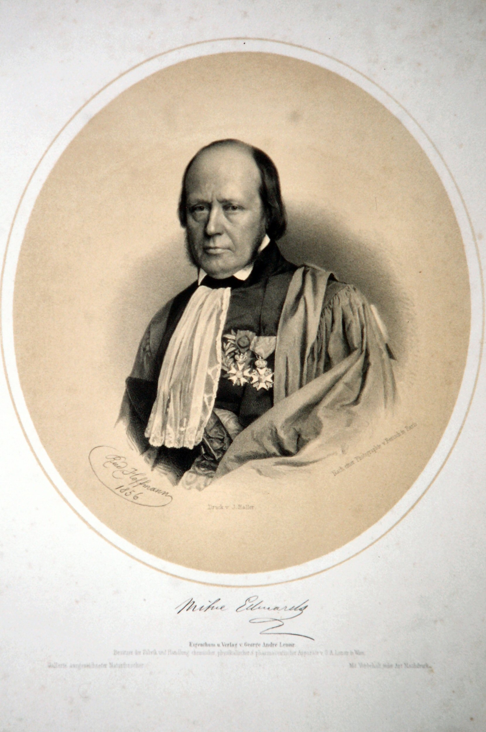 Henri Milne-Edwards, (1800-1885). French natural scientist. Lithography by Rudolf Hoffmann, 1856, after a photo by Bertsch (Paris). From Gallerie ausgezeichneter Naturforscher published in Vienna